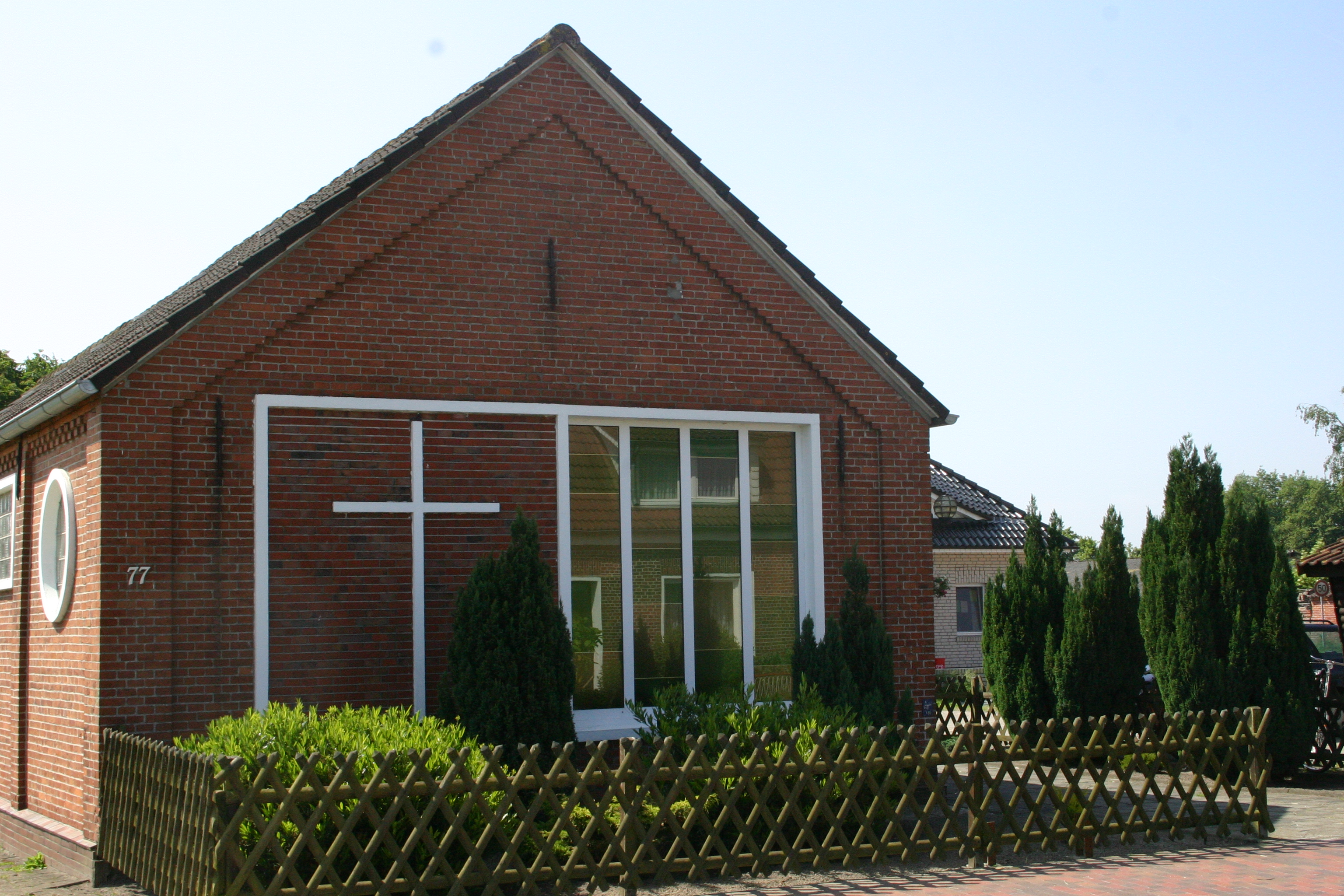 Historic church (bapt.) in Wymeer, district of Leer, East Frisia, Germany